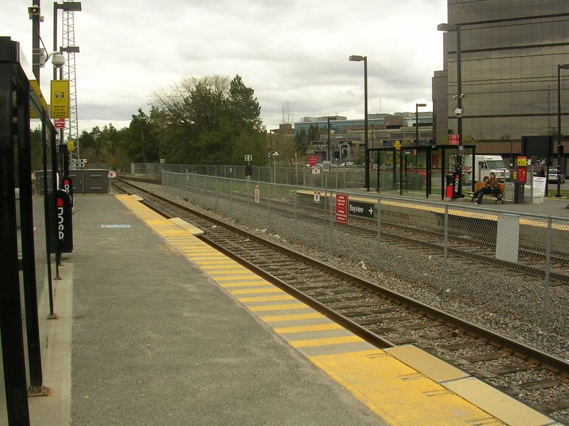 Train plaforme of the Ottawa O-Train (Bomabrdier Talent light trains). The yellow part is an extension that can be retracted to permit regular width trains.